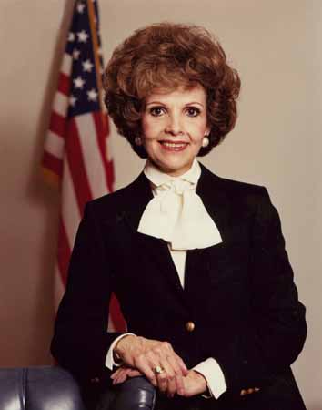 Paula Hawkins (R-FL), former U.S. Senator from Florida